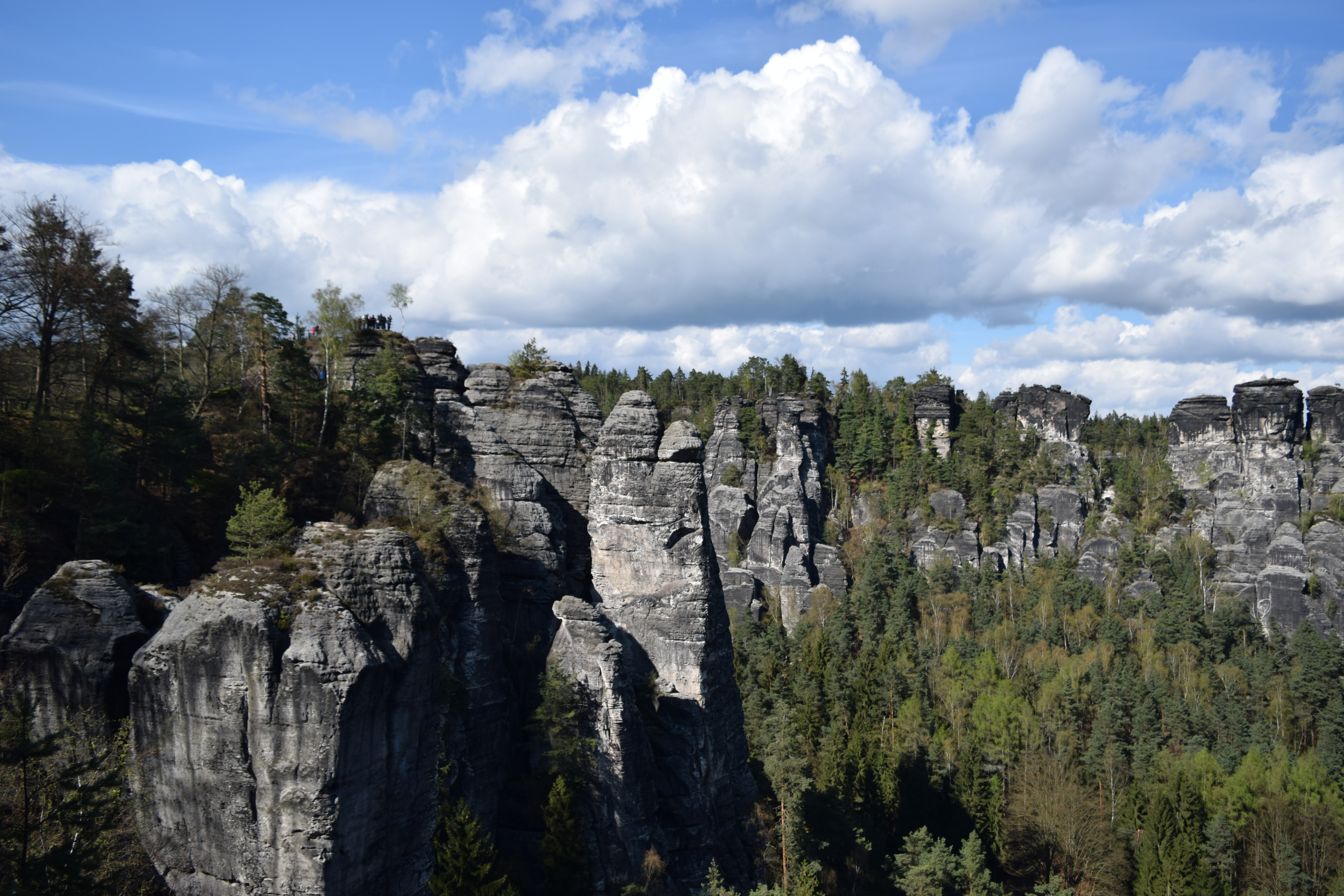 This picture was taken from the top of the Saxon Switzerland National Park, which is around 400 feet up.That's the highest peak in this park.